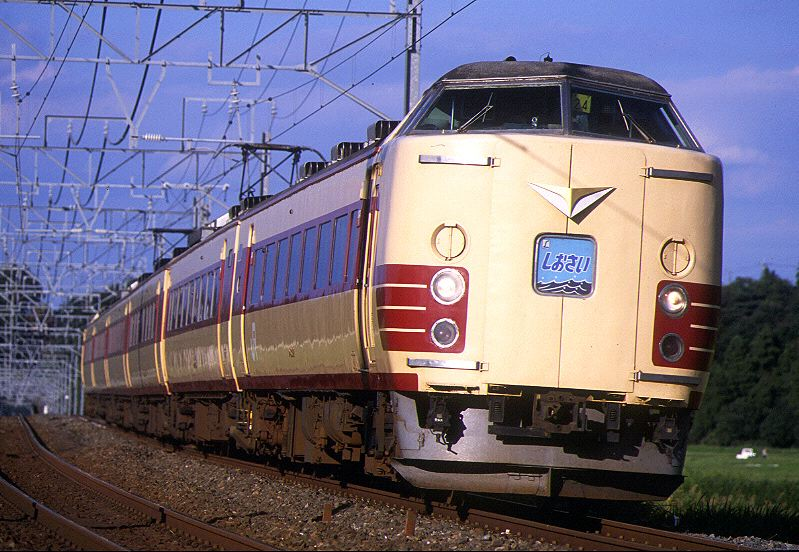 A JR East 183 series EMU on the Sobu Main Line on a Shiosai limited express service